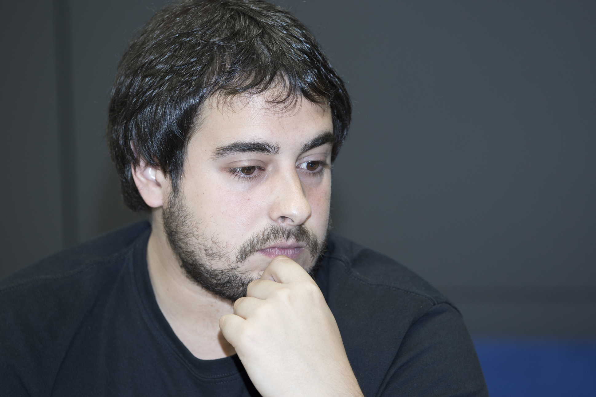 Julen Bollain en 2016